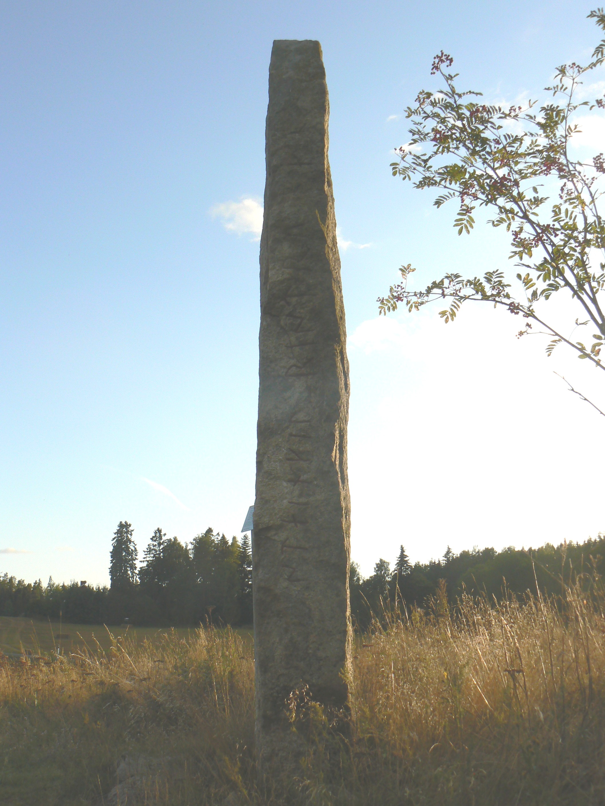 Södermanlands runinskrifter 54 ("Runic Inscriptions of Södermanland 54"), runestone in Södermanland, Sweden. Side view.